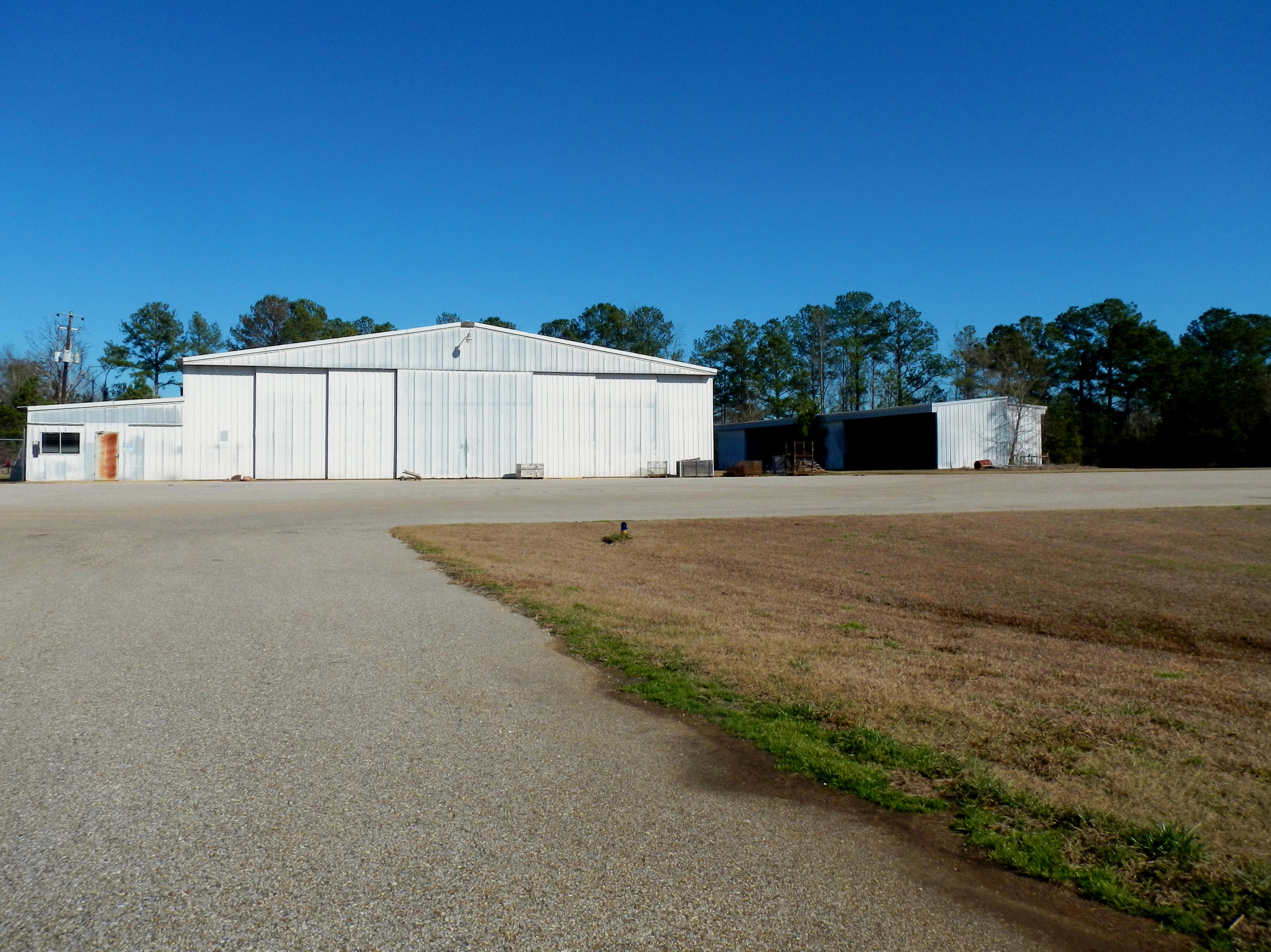 This is a photograph of the Fort Deposit–Lowndes County Airport located near Fort Deposit, Alabama.